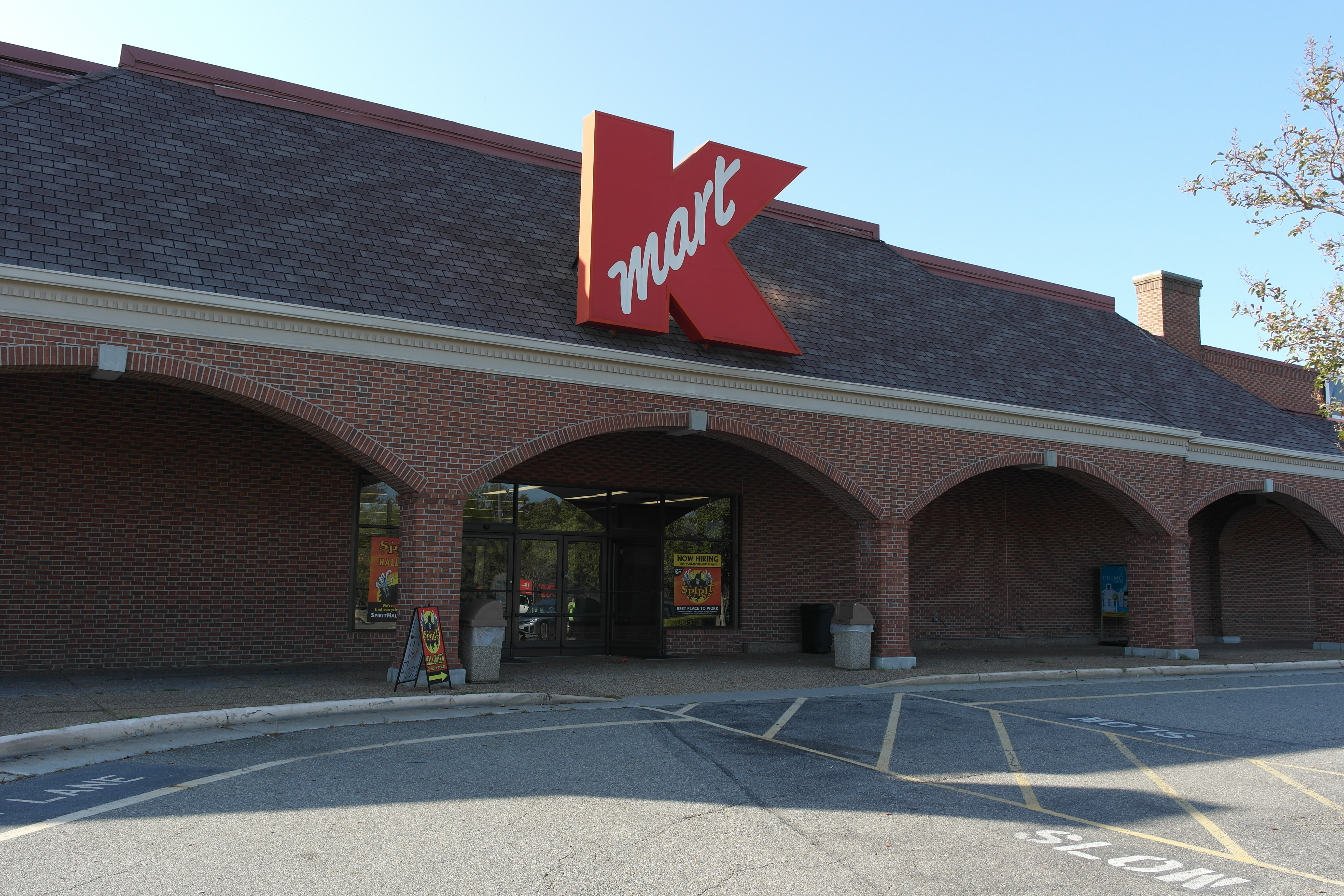 Spirit Halloween in the former Kmart store in Williamsburg, Virginia.